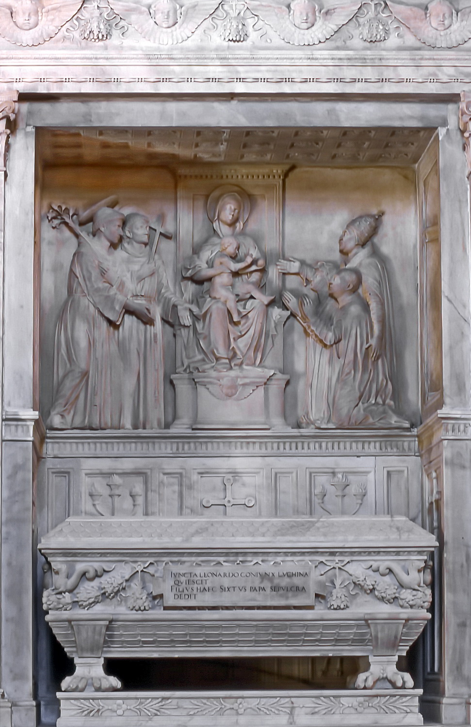 Funeral Monument of the parents of Pope Sixtus IV, Leonardo della Rovere and Luchina Monleoni; San Francesco (Capella Sistina), Savona